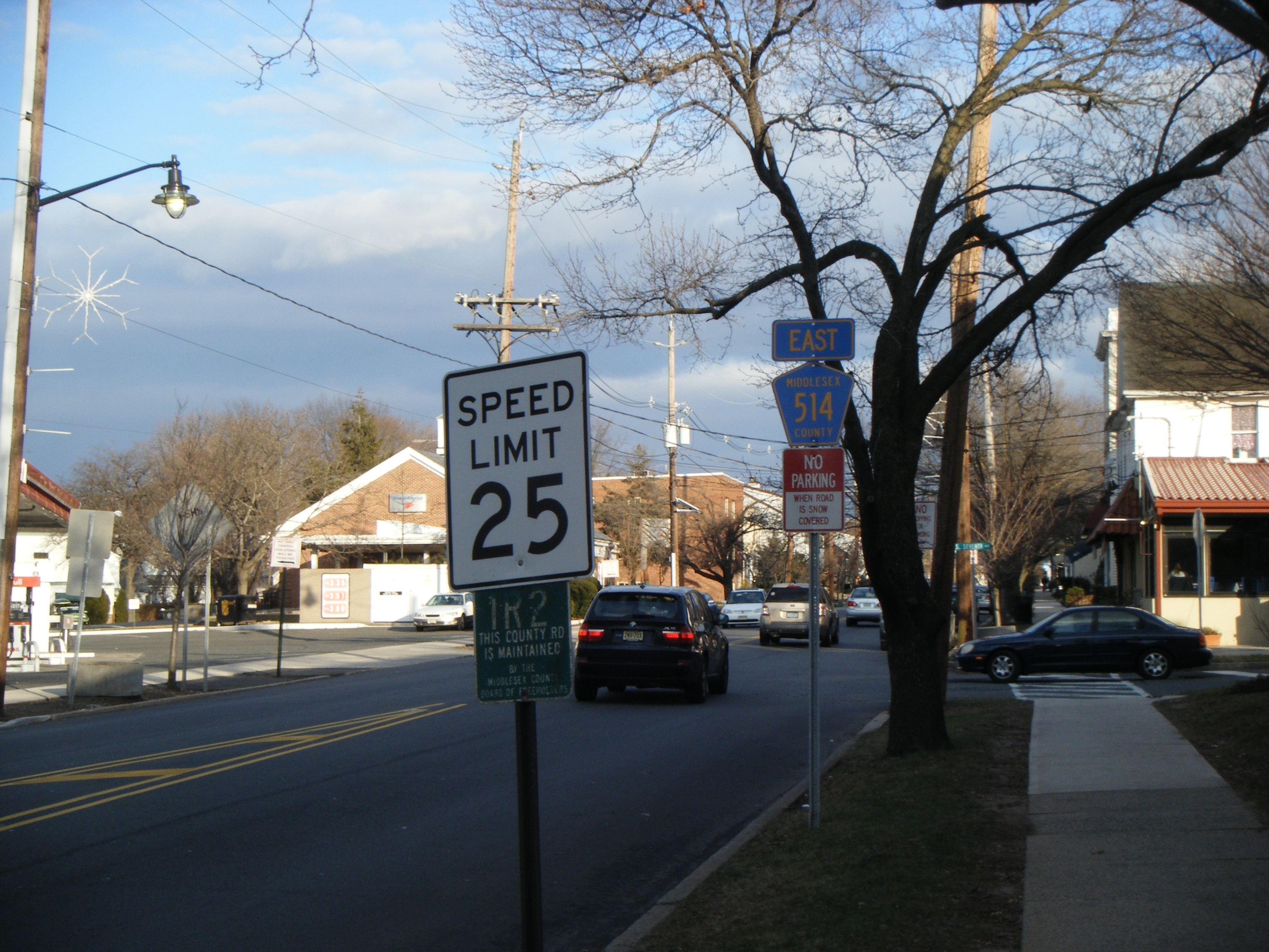 Shields for County Route 514 and former County Route 1R2 designation eastbound on Woodbridge Avenue past New Jersey Route 27 in Highland Park